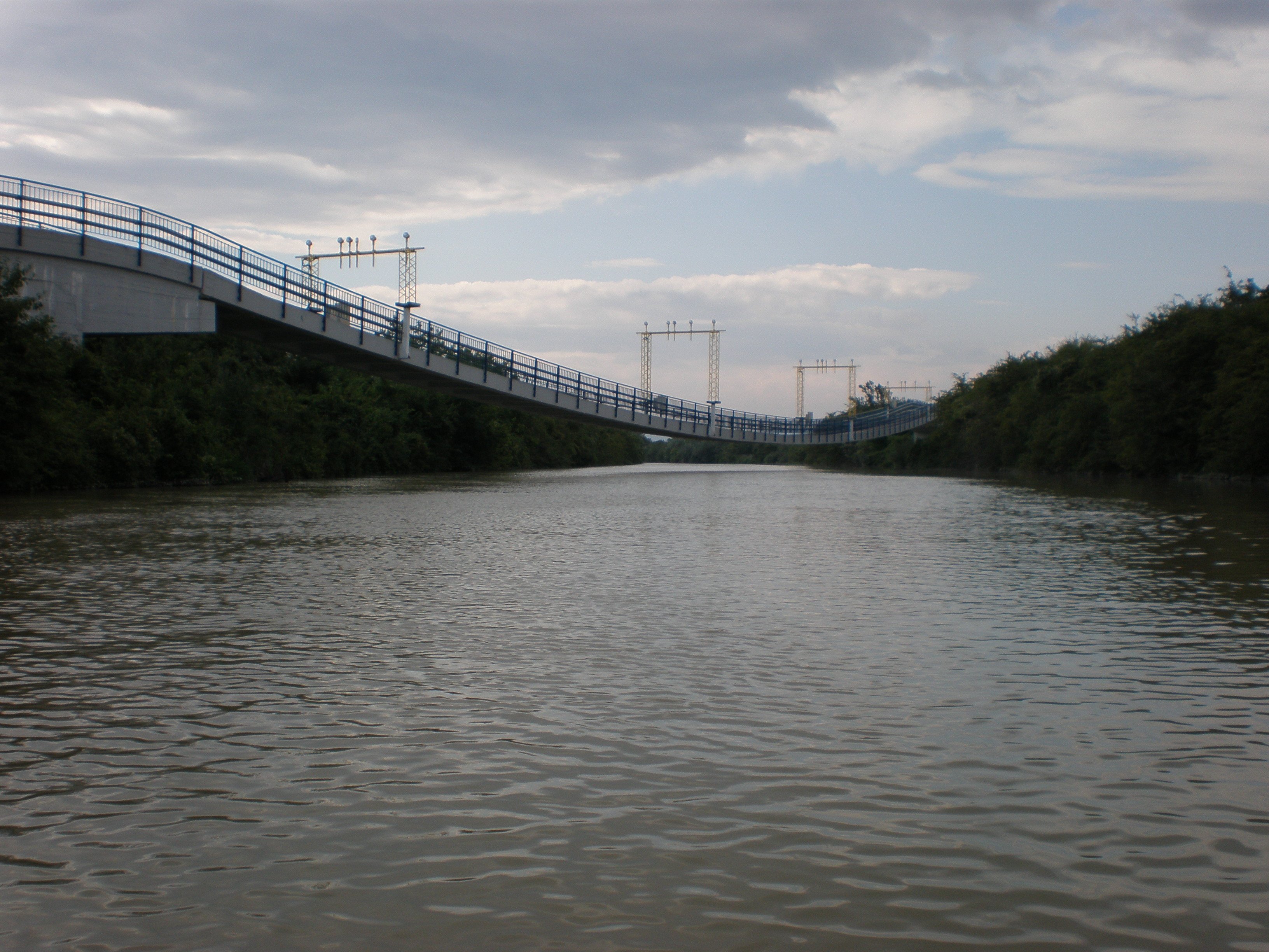 Bridge cross Little Danube near airport in BA